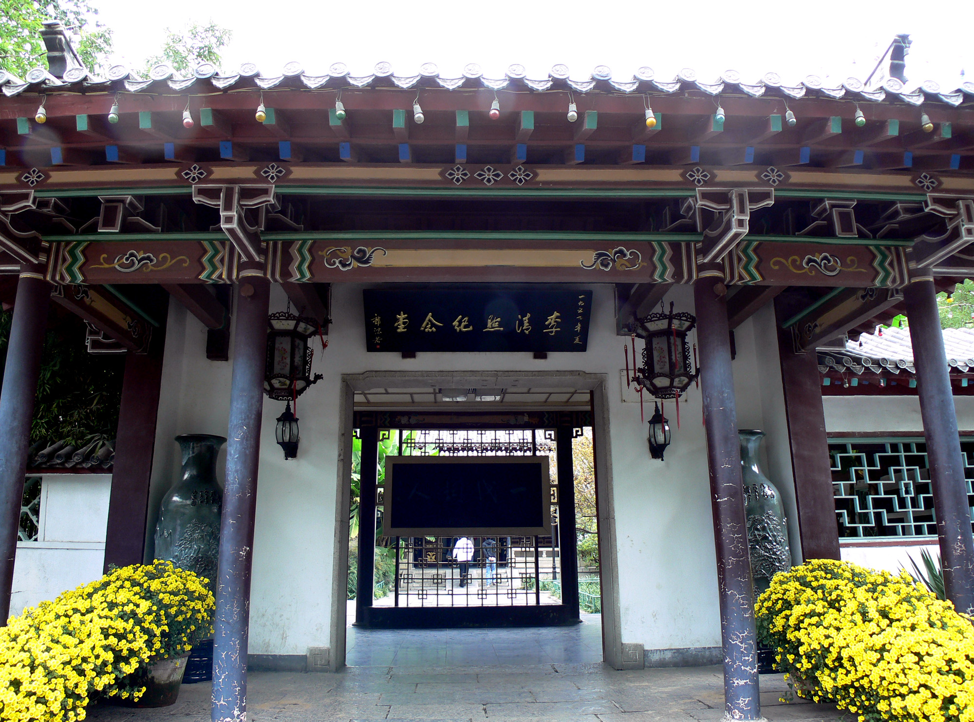 Li Qingzhao Memorial at Baotu Spring garden, Jinan 中文（中国大陆）: 济南市趵突泉公园李清照纪念堂